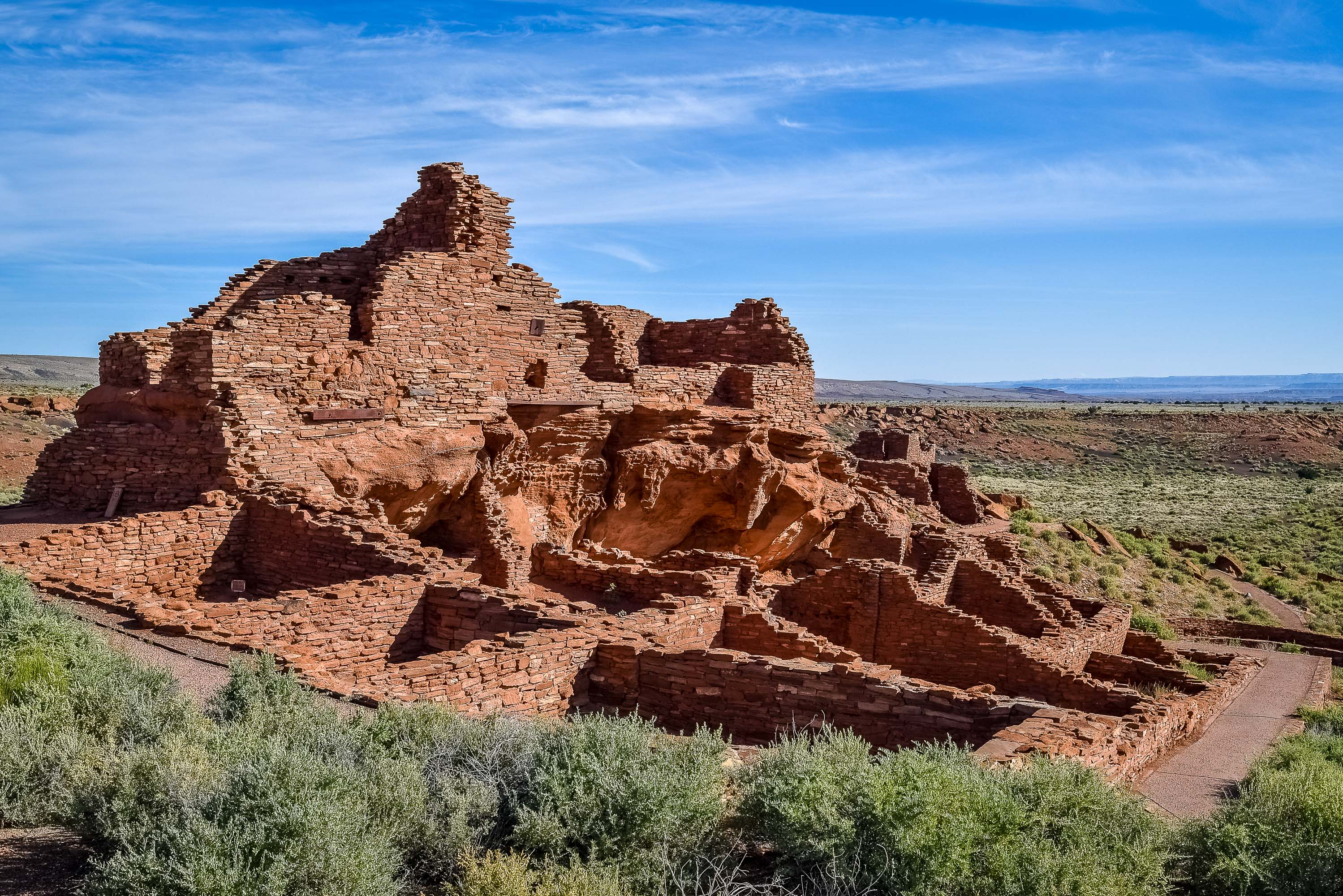 wupatki national monument, arizona, usa